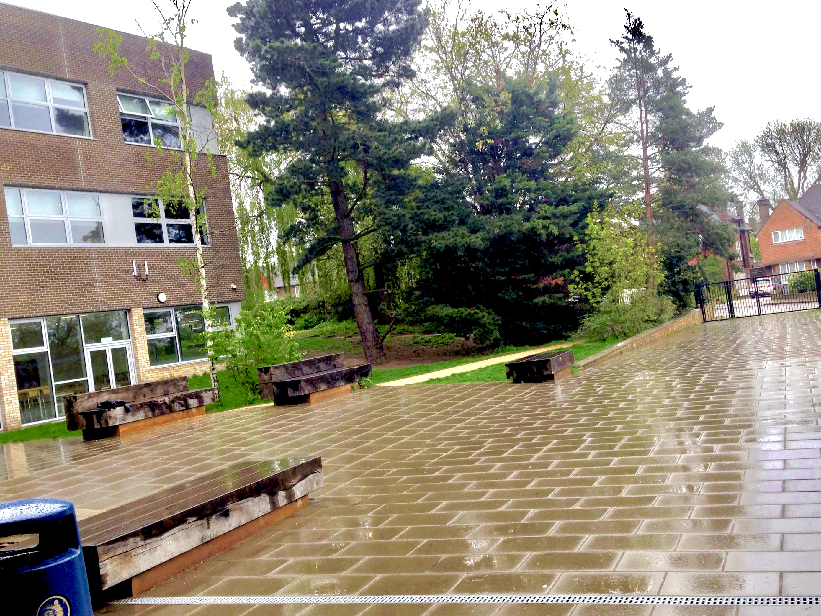 This is the playground where students of middle school play during their free time